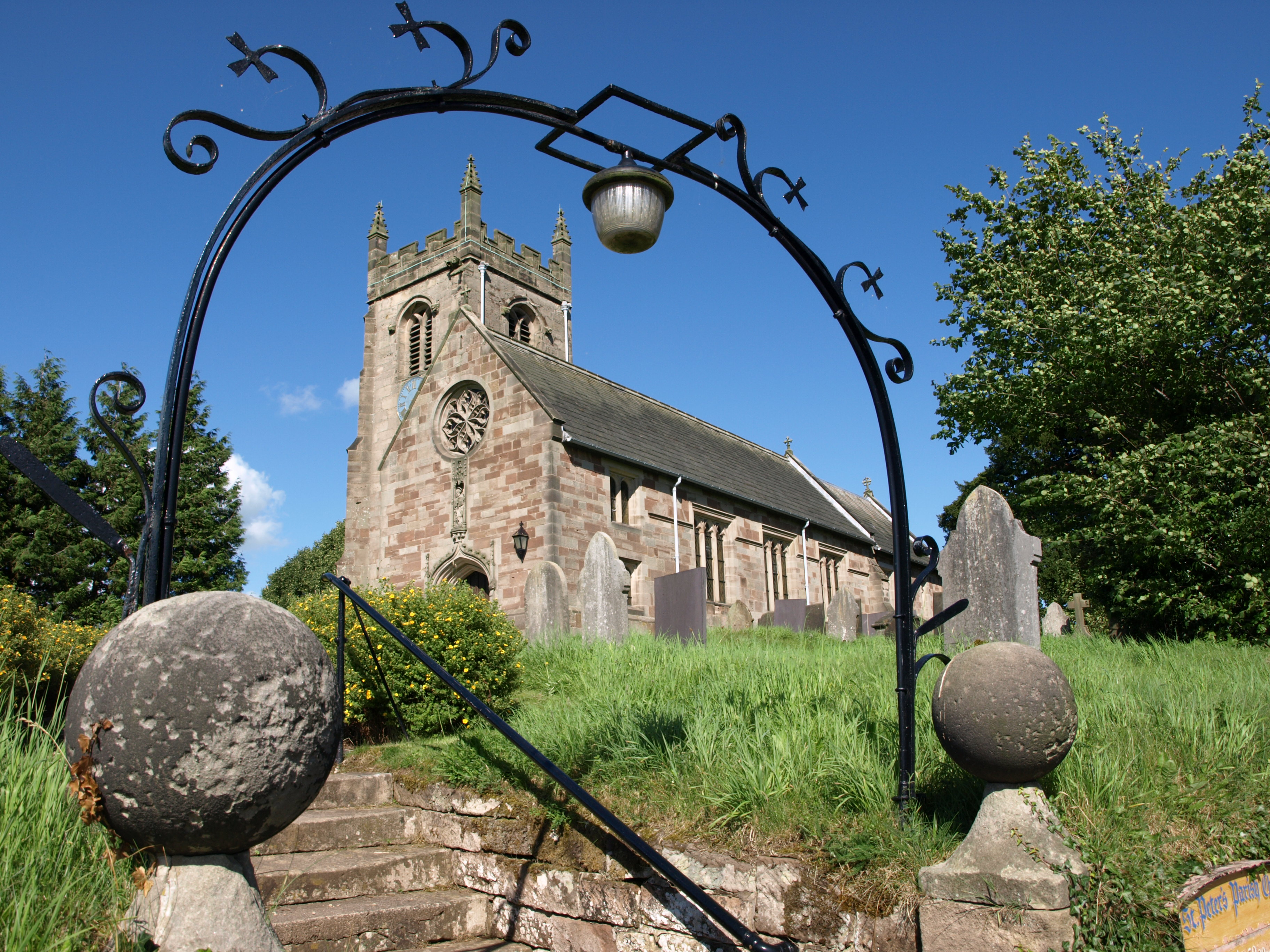 St Peter's parish church, Snelston, Derbyshire, seen from the southwest